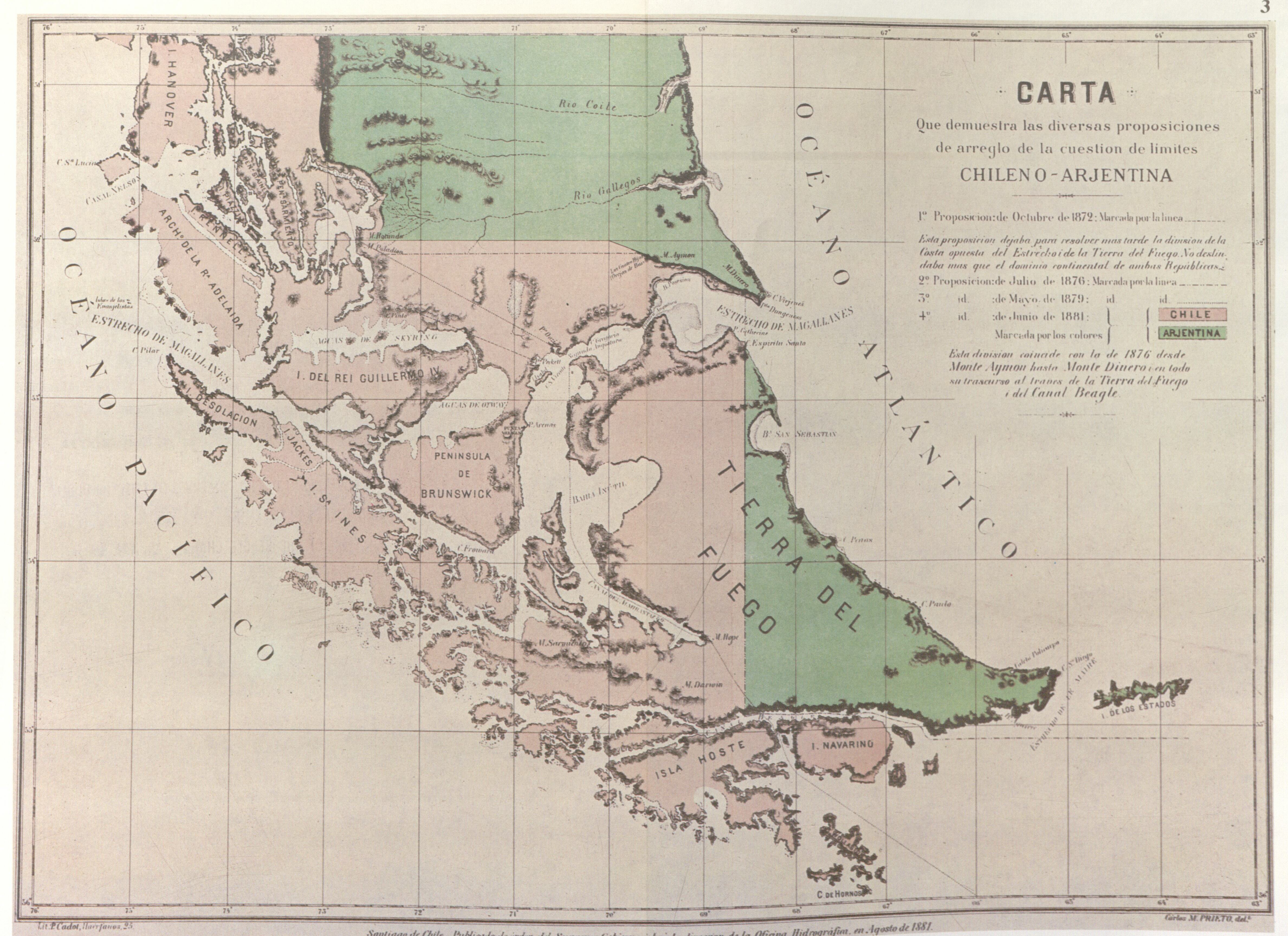 "Official Map of the Chilean Hydrographic Office issued in August 1881 The Government of Chile had this official map issued in 1881 to illustrate both the newly signed Boundary Treaty of 23 July 1881 and the various proposals for boundary limits submitted during the course of negociations between Chile and Argentina during the years 1872, 1876 and 1879. It was drawn up by Carlos M. Prieto, an engineer of the Chilean Hydrographic Office. The terrritory asigned to Chile by the Boundary Treaty of 1881 is shown coloured in pink with the territory assigned to Argentina in green. Picton, Nueva and Lennox Islands together with all the others extending southward as far as Cape Horn are shown as assigned to Chile. This map was widely distributed both at home and abroad. It was published in the Chilean press and foreign diplomatic missions in Santiago and various foreign institutionsreceived copies of this official Chilean map."